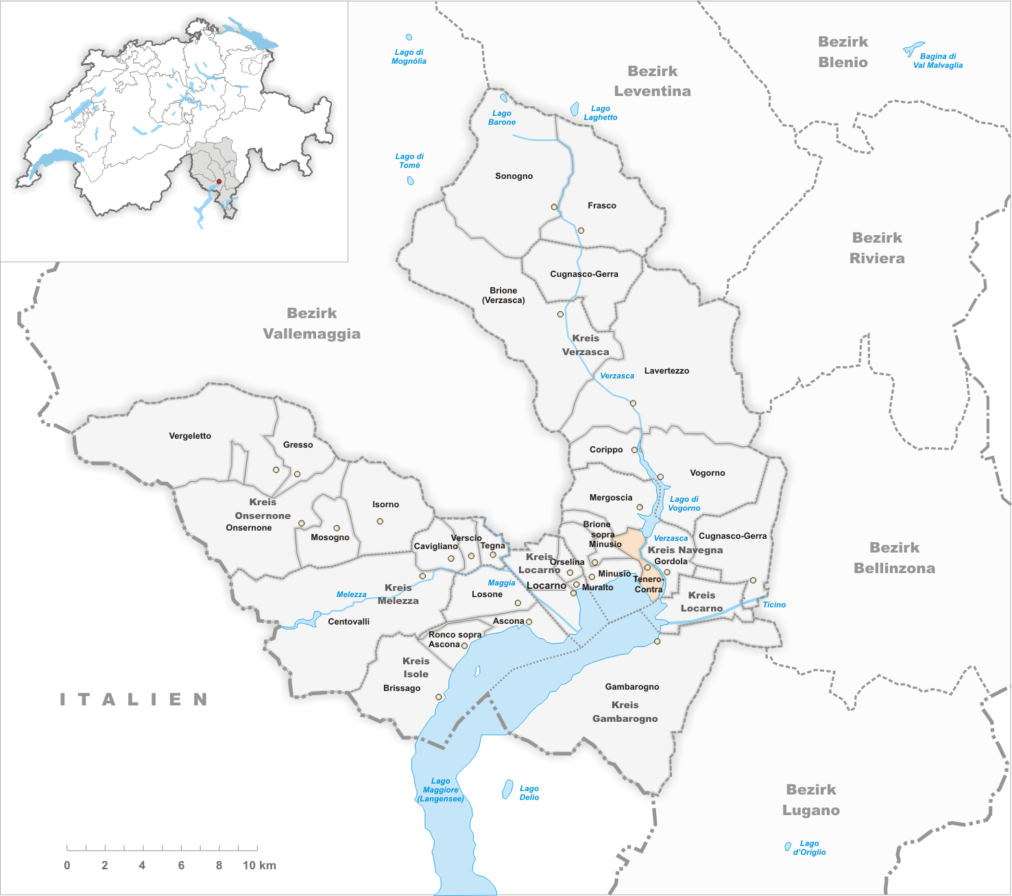 Municipality Tenero-Contra Artist: Tschubby